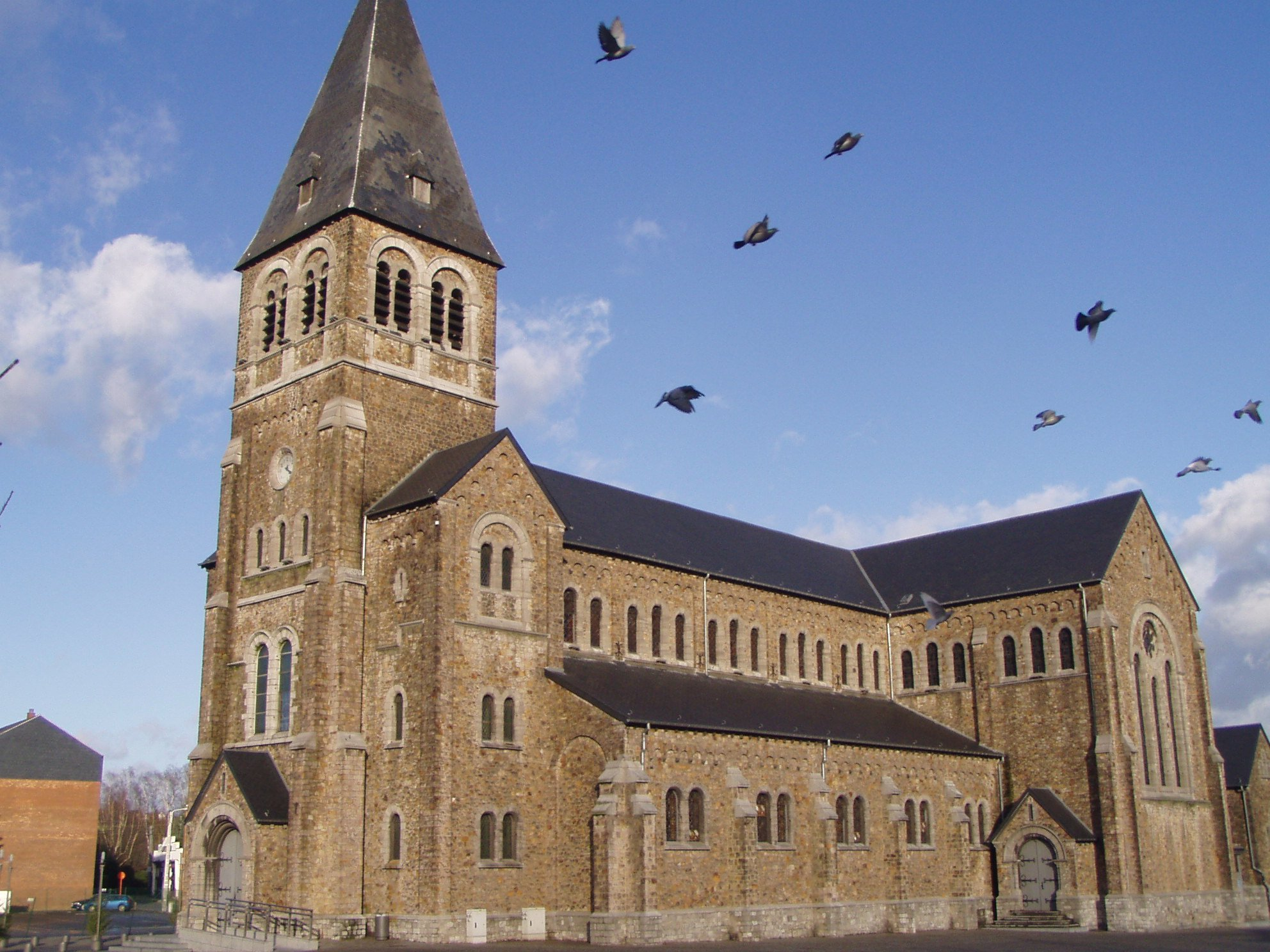 Church St Victor (1911) on the "Place Communale" is the main church at the center of Auvelais (Sambreville)